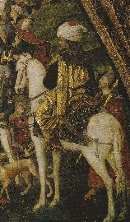 St Catherine's Disputation / 2nd Room: Hall of the Saints (Sala dei Santi) The Borgia Apartments (Appartamento Borgia) On the rear wall, Lucrezia is painted as St. Catherine of Alexandria facing 50 opponents.